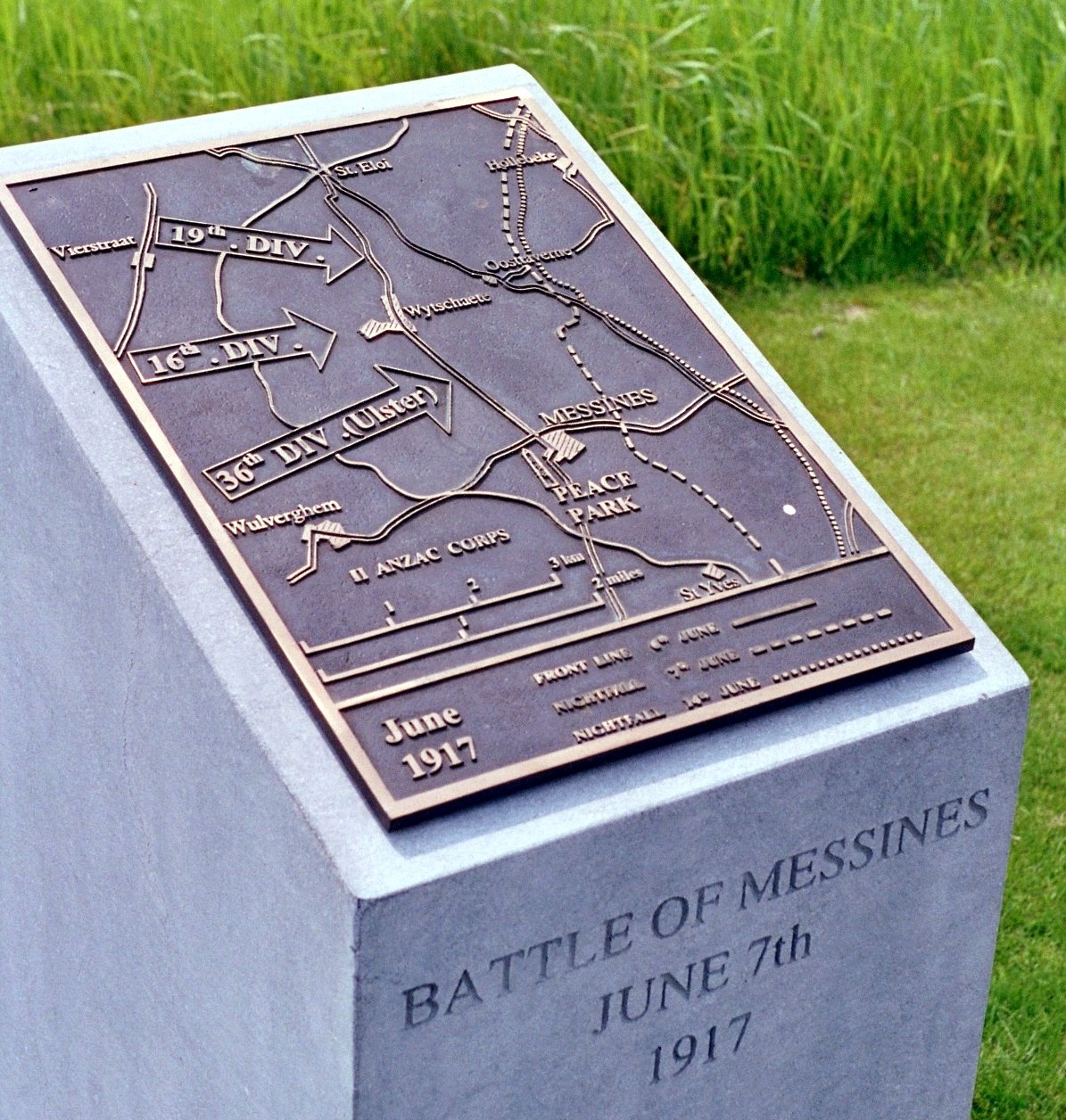 An elevated bronze plaque showing the direction of assault at the outset of the Battle of Messines in June 1917 in which the two voluntary Irish divisions, the 36th (Ulster) Division and the 16th (Irish) Division, played a decisive role. The plaque stands in the grounds of the Island of Ireland Peace Park, Messines, Belgium.